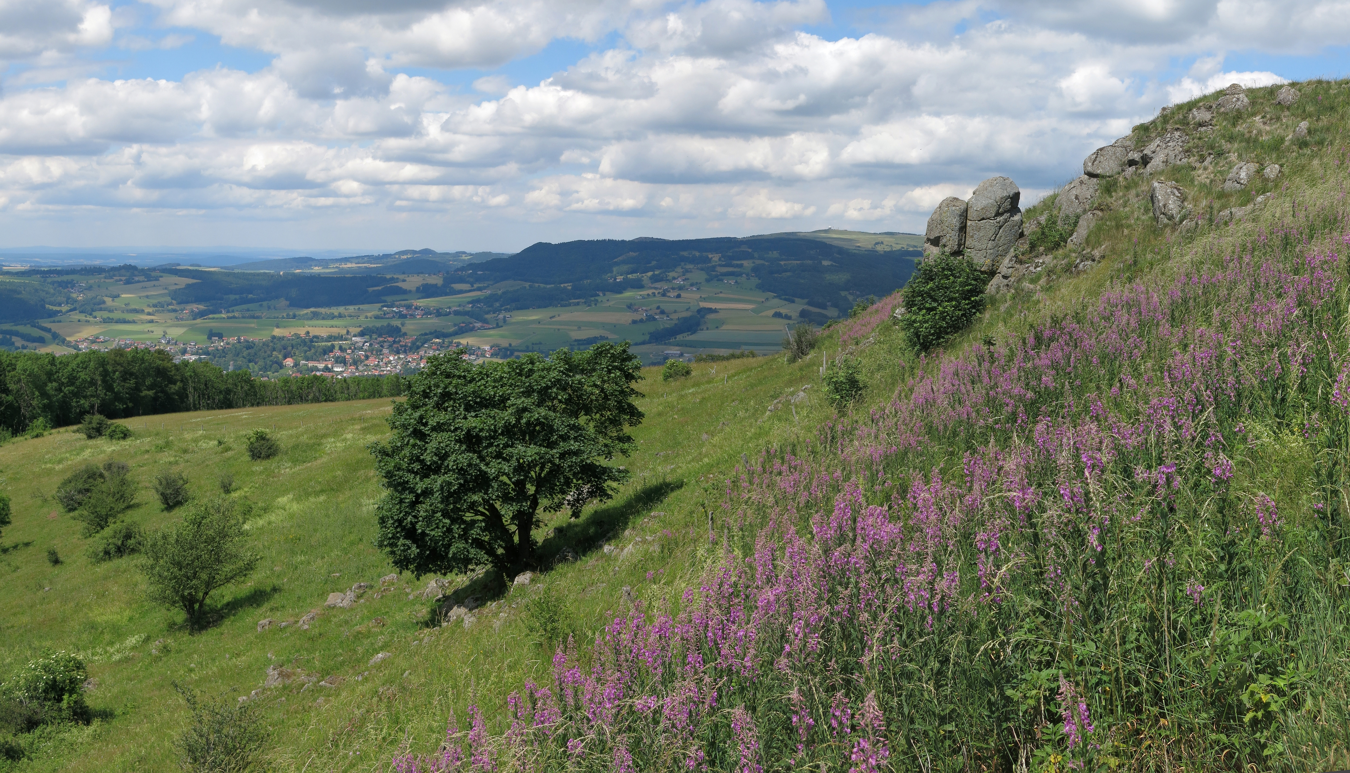 Summit area of ​​the Simmelsberg in the Rhön Mountains with fields of Chamaenerion angustifolium